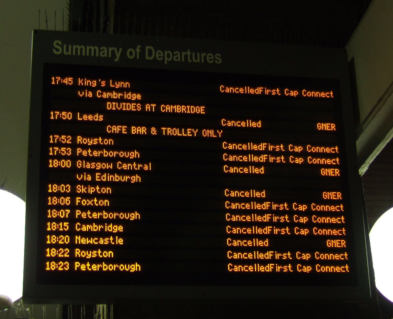 "Summary of Departures" at King's Cross railway station on 18th January 2007. All the trains are listed as cancelled. The reason for the cancellations is a storm called Kyrill.